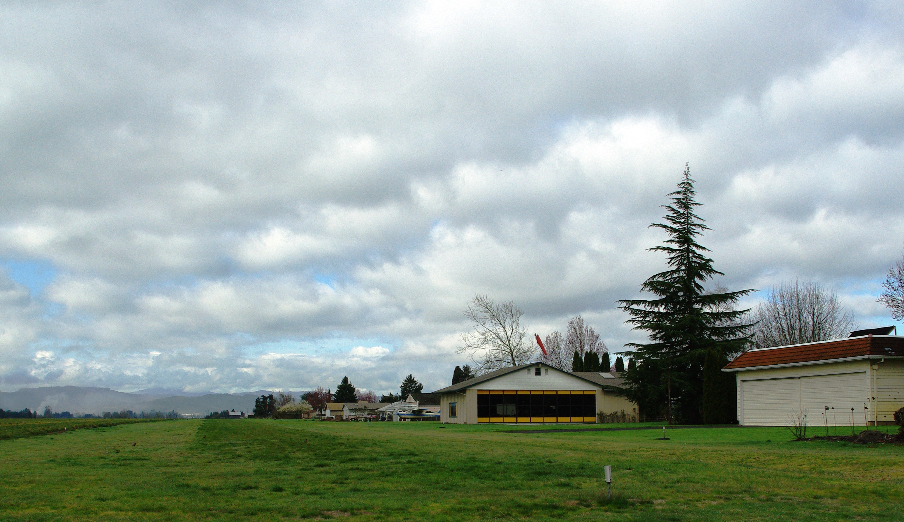 Olinger Strip near Hillsboro, Oregon, USA.